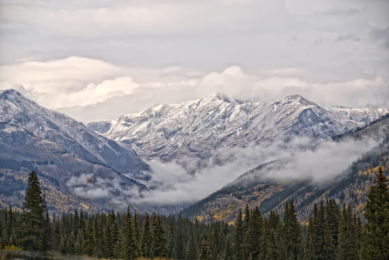 Taken near Silverton, Colorado, 10/2008.